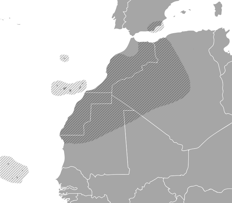 Dispersal area of Launaea arborescens after Norbert Kilian: Revision of Launaea Cass. (1997).